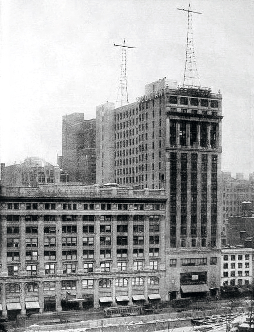 Photograph of Aeolian Hall in New York City, with the recently installed antenna towers atop the roof for the Radio Corporation of America's radio stations WJY and WJZ. Original caption: "AEOLIAN HALL, NEW YORK Where many of the world's greatest singers and instrumentalists appear. It is likely to become the music centre of America, for the music of the masters may be enjoyed by a greatly enlarged audience"